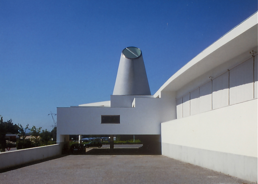 Revigrés Commercial Building in Agueda, Portugal, designed 1993-1997 by Portuguese architect Álvaro Siza Vieira